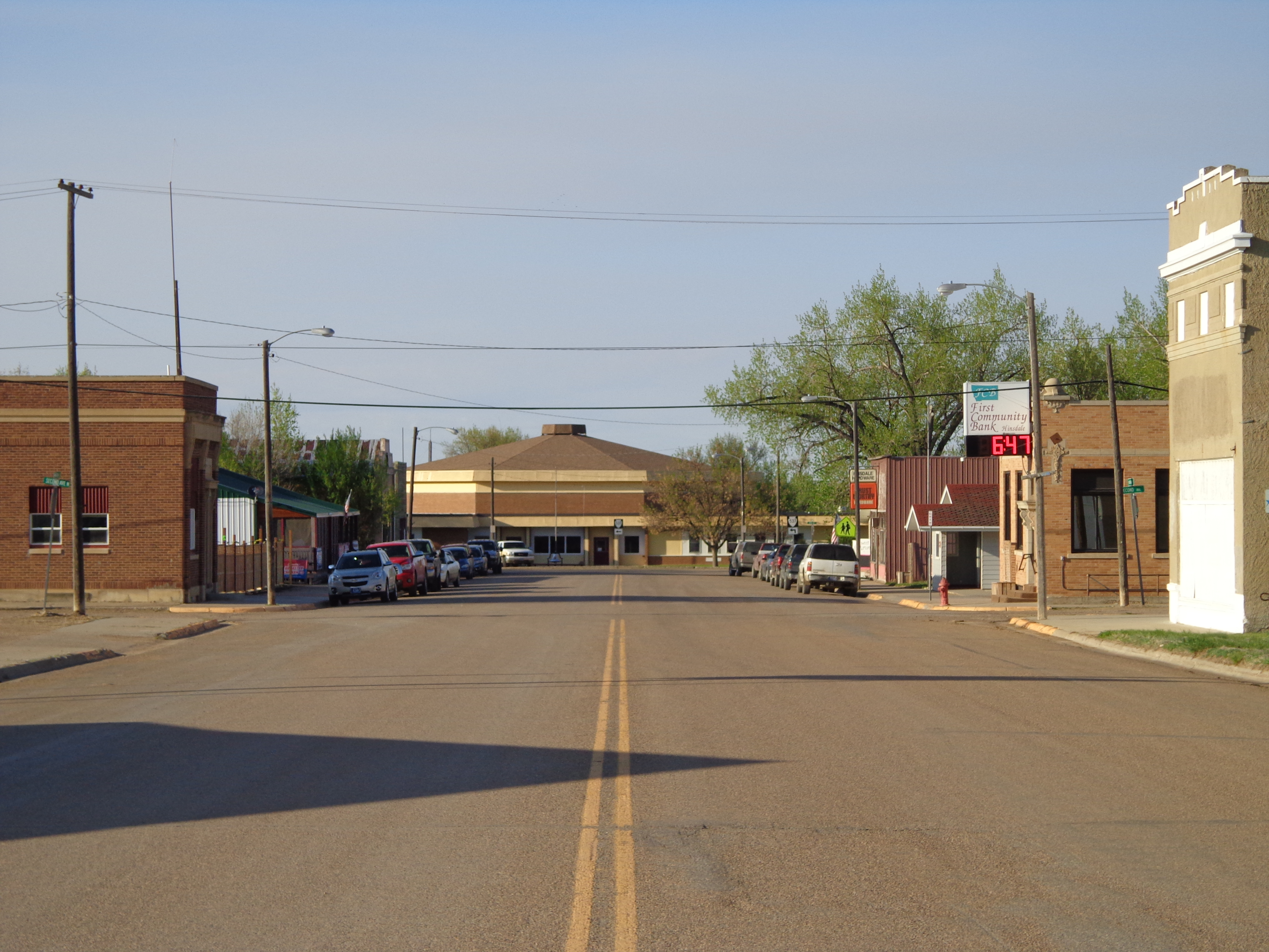 This is a picture of Hinsdale, Montana. The picture was taken on the south end of Montana Street, often referred to as Main Street, looking north. Most of the businesses in town are located on Montana Street.